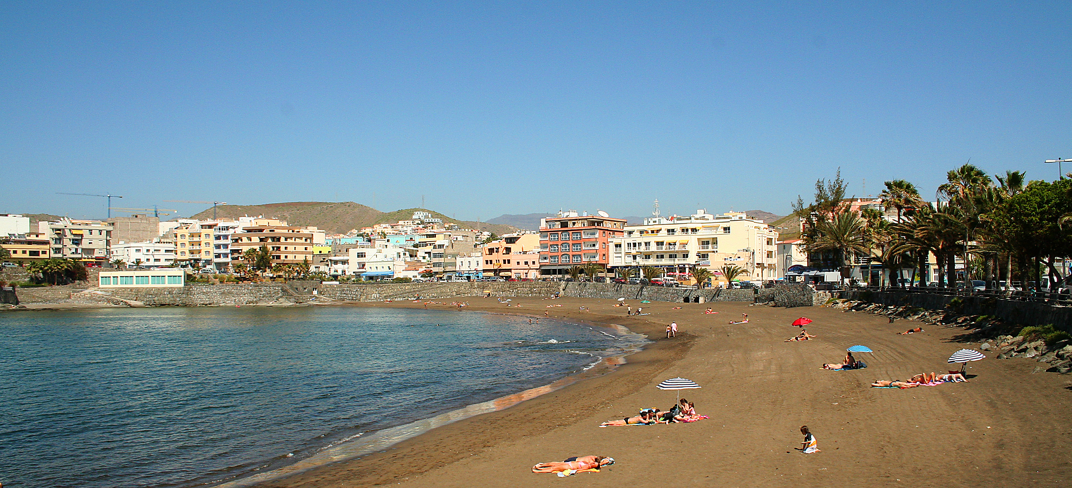 Beach in Arguineguin (Gran Canaria) Canary Islands.